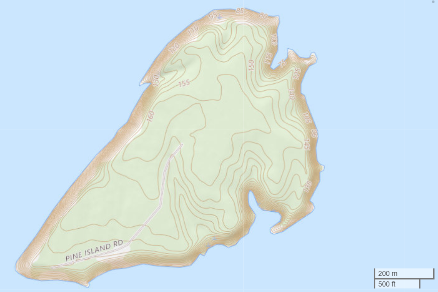 USGS Topographic Map of Pine Island, Lake Livingston, Texas